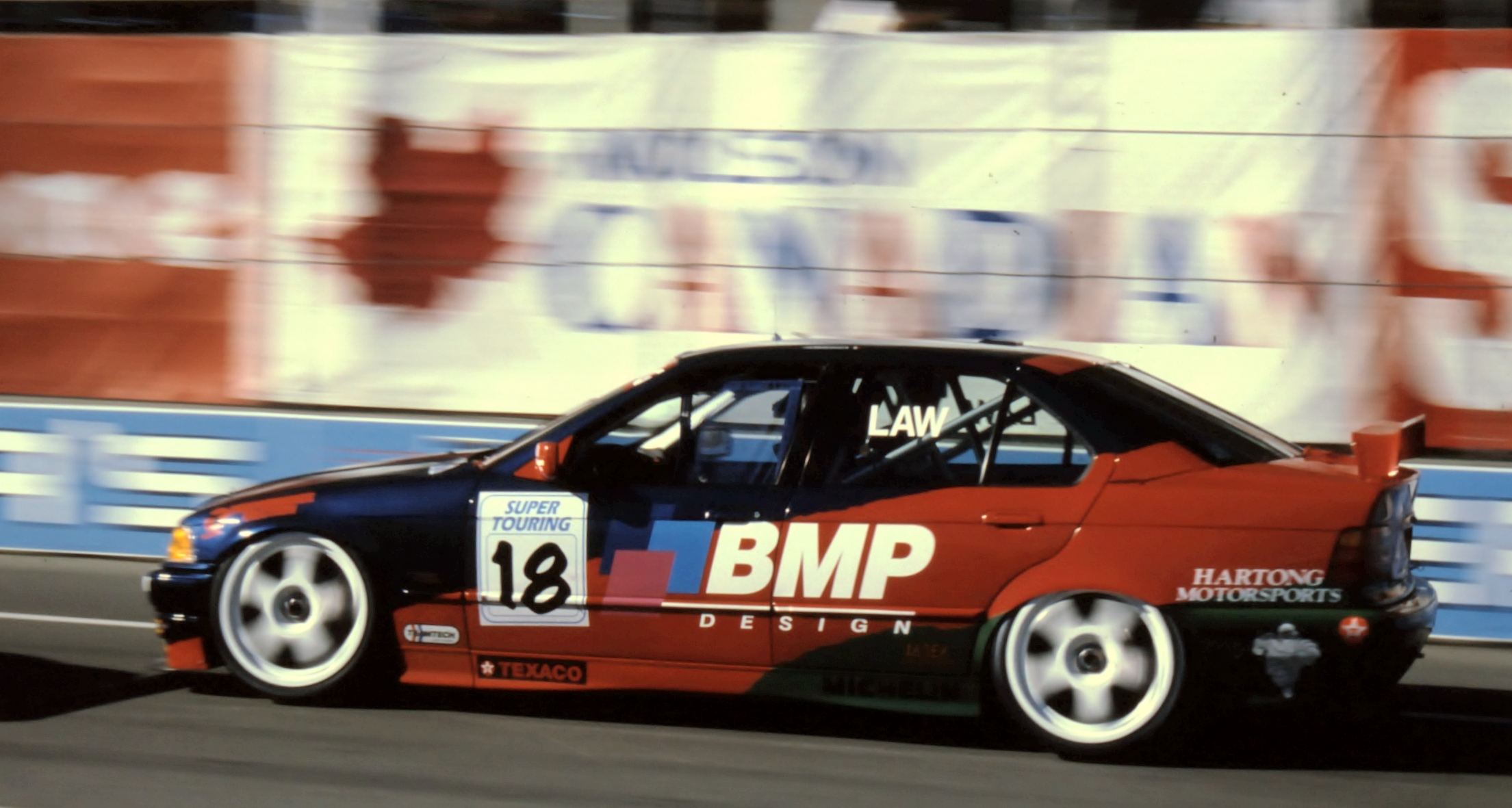 Hartong Motorsport's BMW 318i driven by Darren Law. (Vancouver 1996)